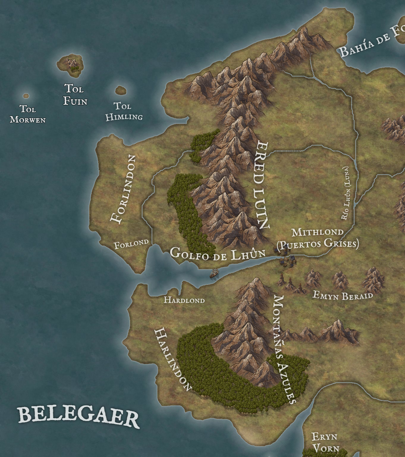 Map of Lindon and Ered Luin, at the end of Third Age